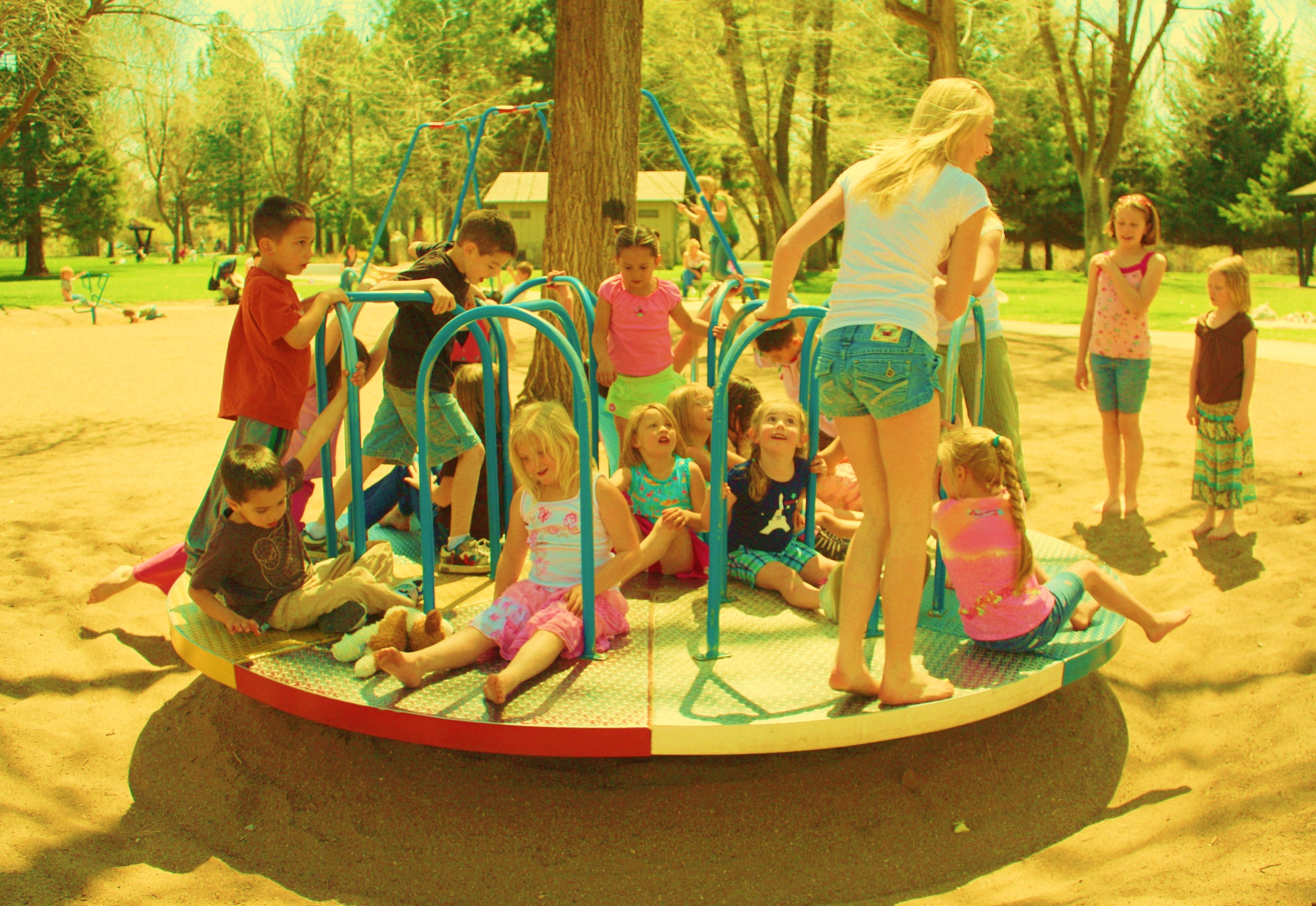 Free for use. Today (19 April, 2009) at the Layton Commons City Park, Layton, Utah, USA. My photos that have a creative commons license and are free for everyone to download, edit, alter and use as long as you give me, "D Sharon Pruitt" credit as the original owner of the photo. Have fun and enjoy!